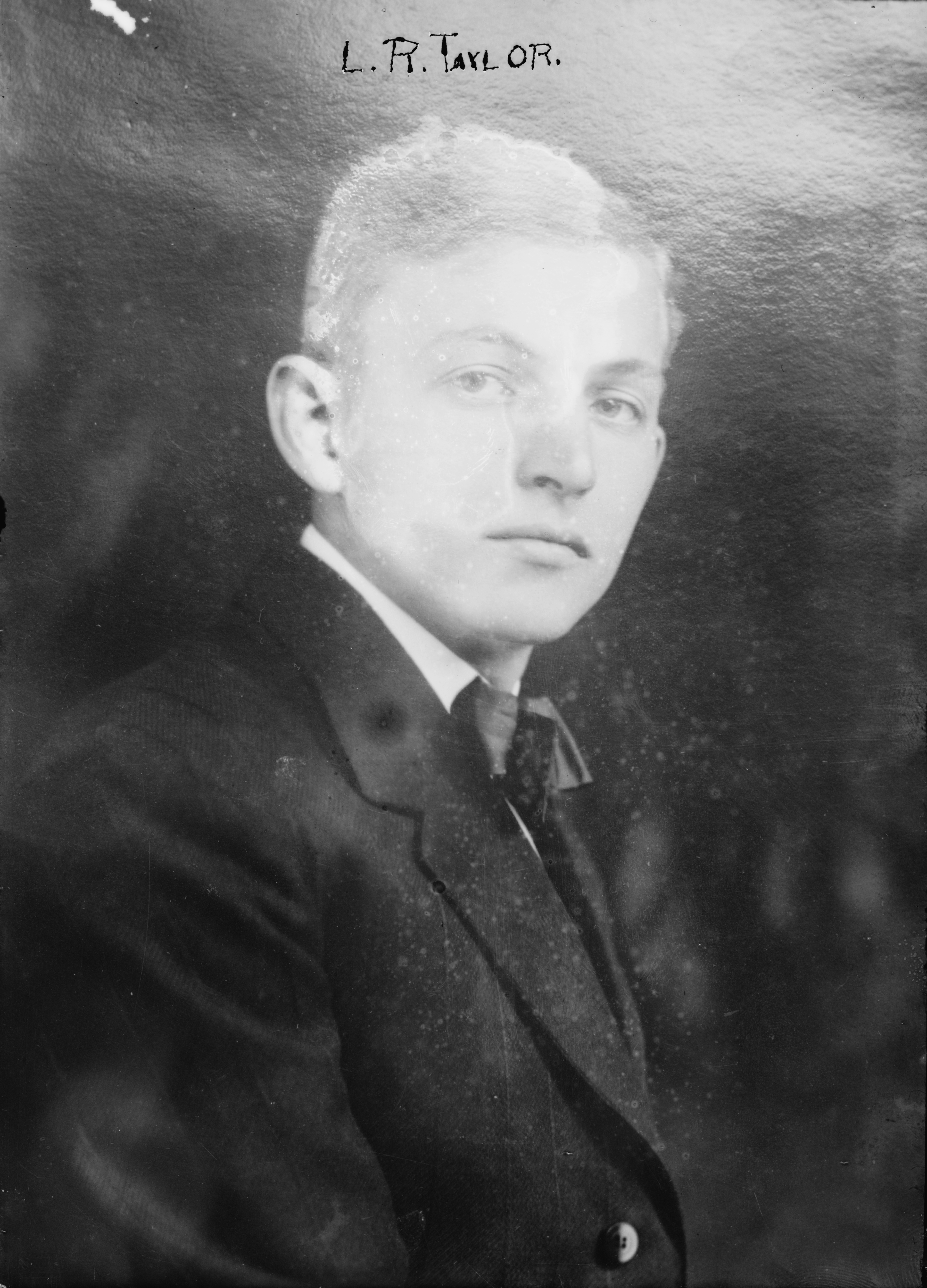 Bain News Service,, publisher. Leon R. Taylor [between ca. 1910 and ca. 1915] 1 negative : glass ; 5 x 7 in. or smaller. Notes: Title from unverified data provided by the Bain News Service on the negatives or caption cards. Forms part of: George Grantham Bain Collection (Library of Congress). Format: Glass negatives. Repository: Library of Congress, Prints and Photographs Division, Washington, D.C. 20540 USA, General information about the Bain Collection is available at Persistent URL: Call Number: LC-B2- 2873-4